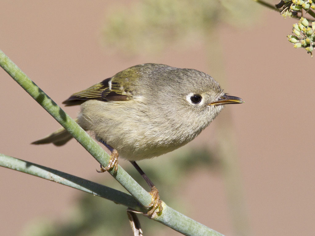 Los Osos, San Luis Obispo Co., CA, USA The use of ANY of my photos, of any file size, is subject to approval by me. Contact me for permission. Larger file sizes of my images are available upon request.